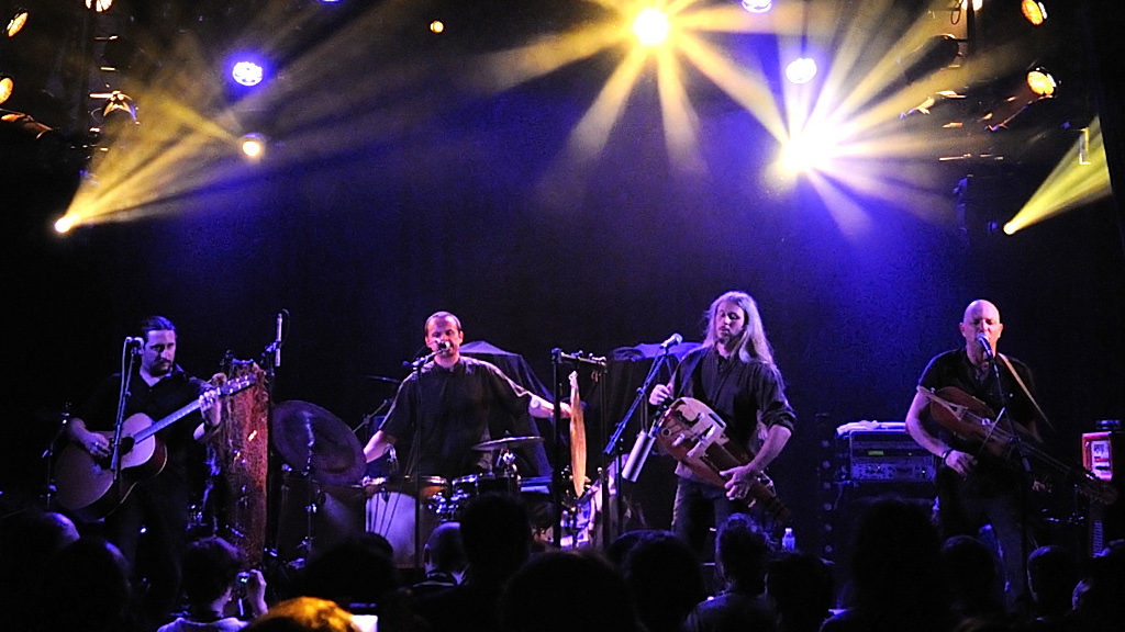 French folk band Stille Volk performing in Paris, France, in 2013. Left to right: Sarg, Yan Arexis, Patrick Lafforgue, Patrice Roques.